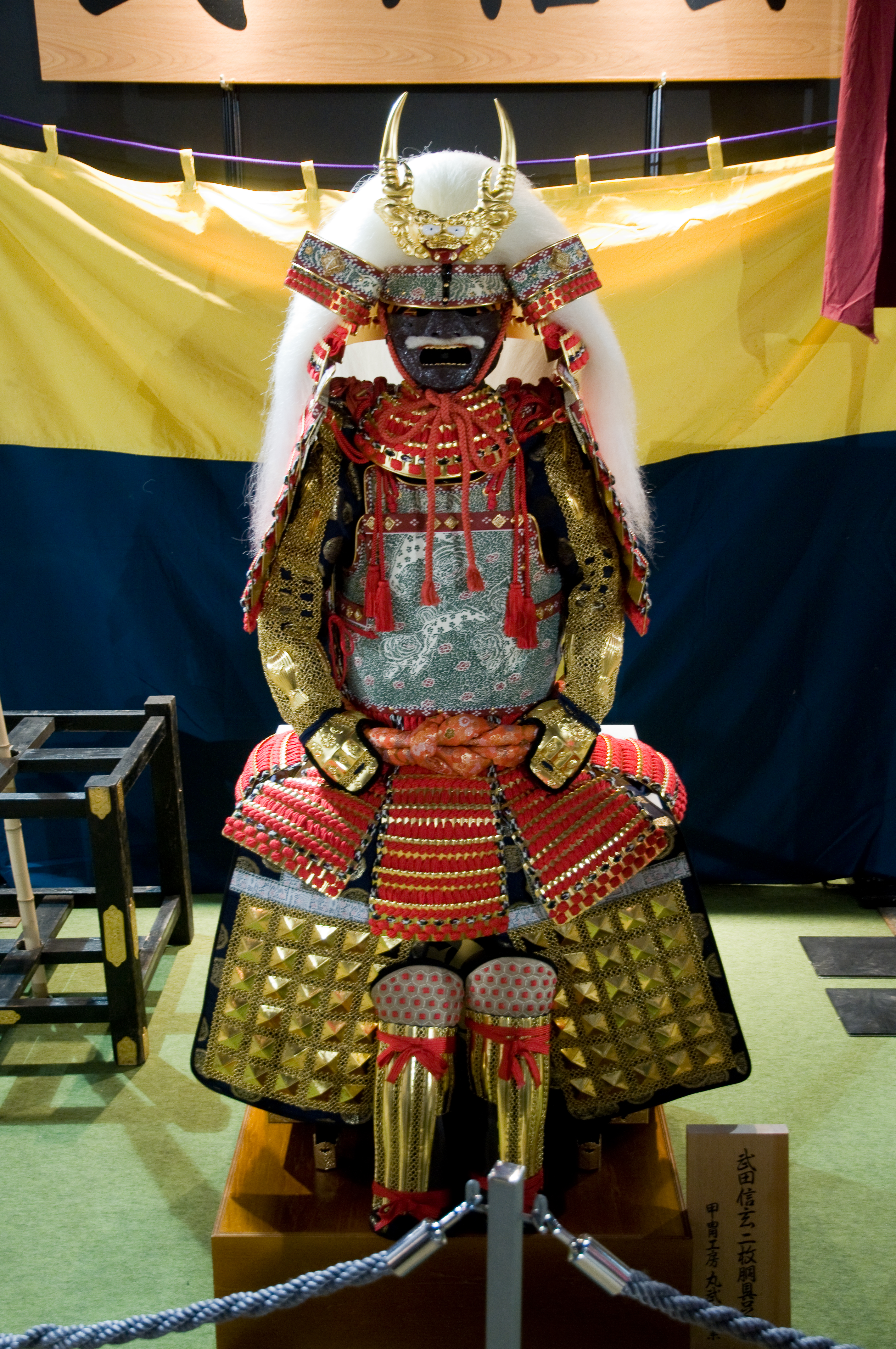 Koei Tecmo booth with a small exhibition of samurai armors. This was Shingen Takeda's armor